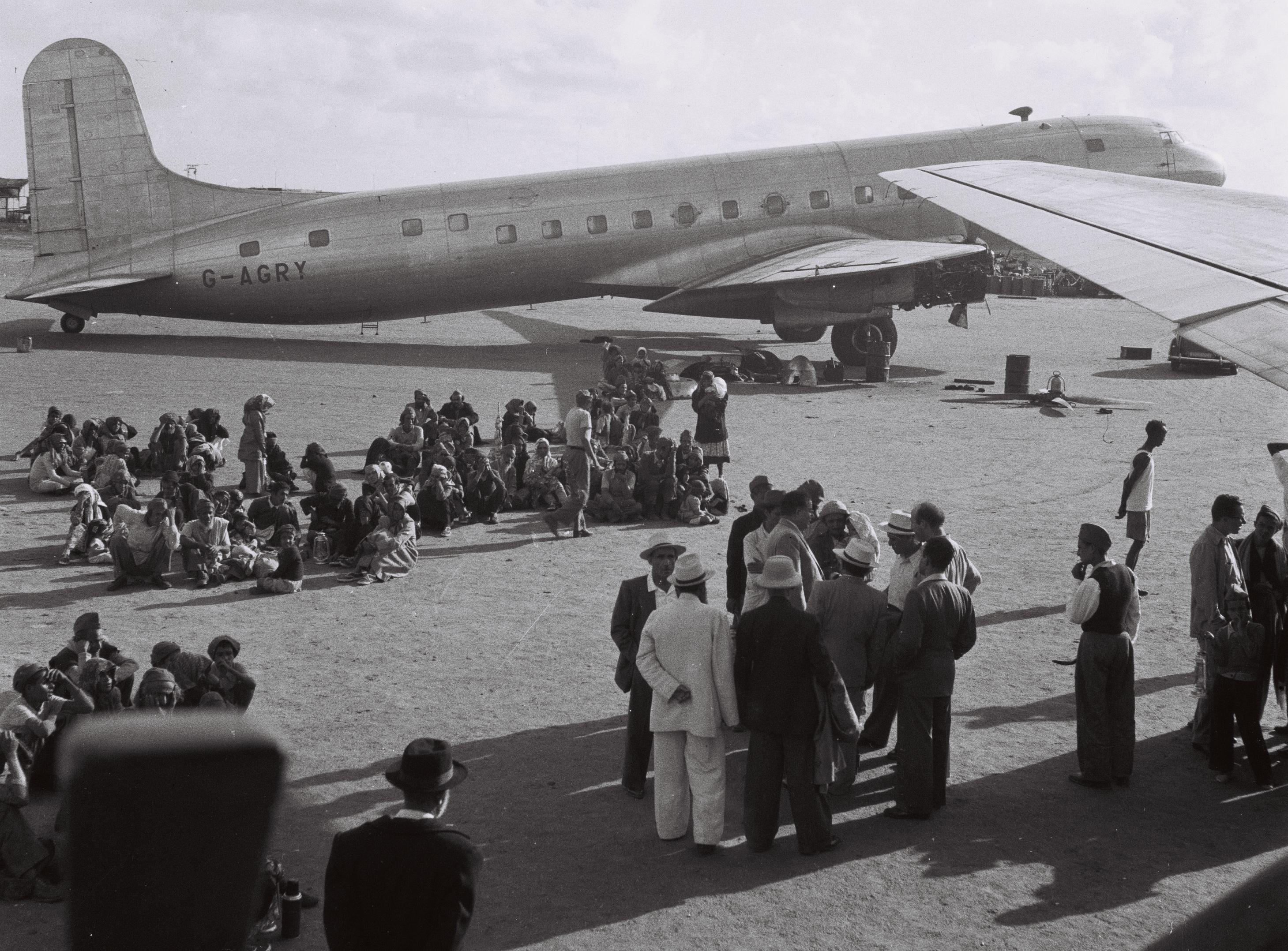 Yemenite Jews wait at the Aden airoprt to be taken to Israel